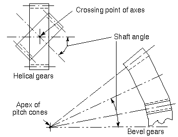 Shaft angle